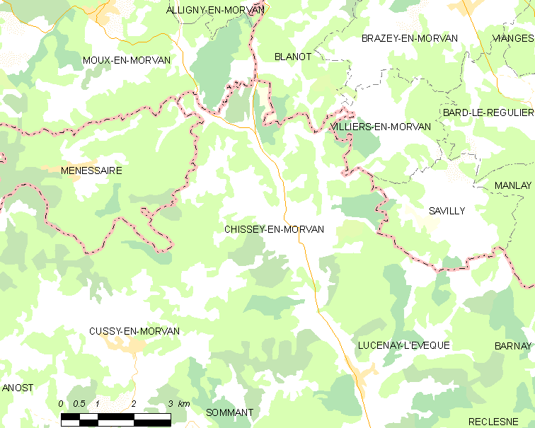 Map of French municipality